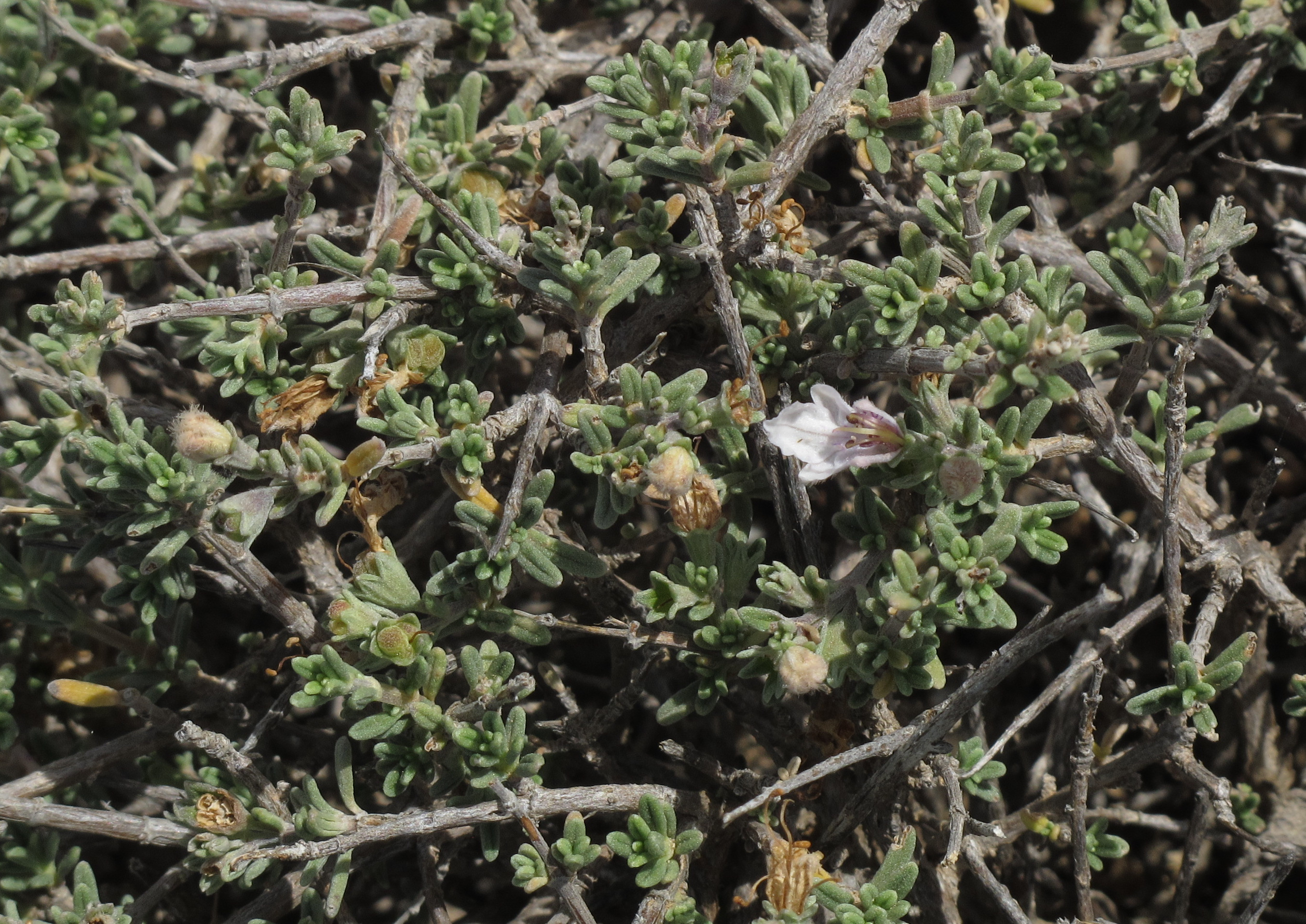 Teucrium brevifolium, NE Crete, Greece